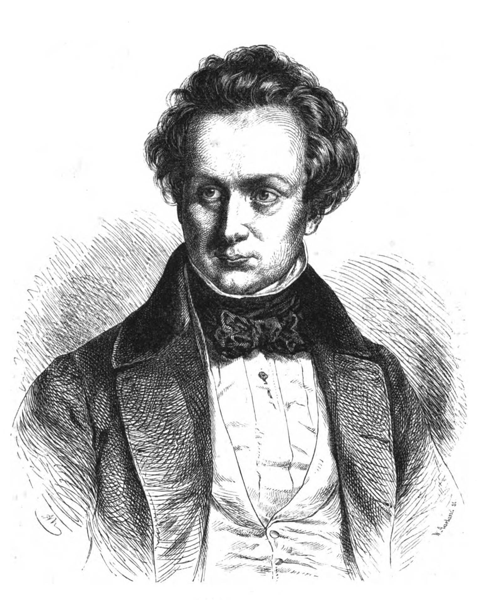 caption: "Victor Hugo."